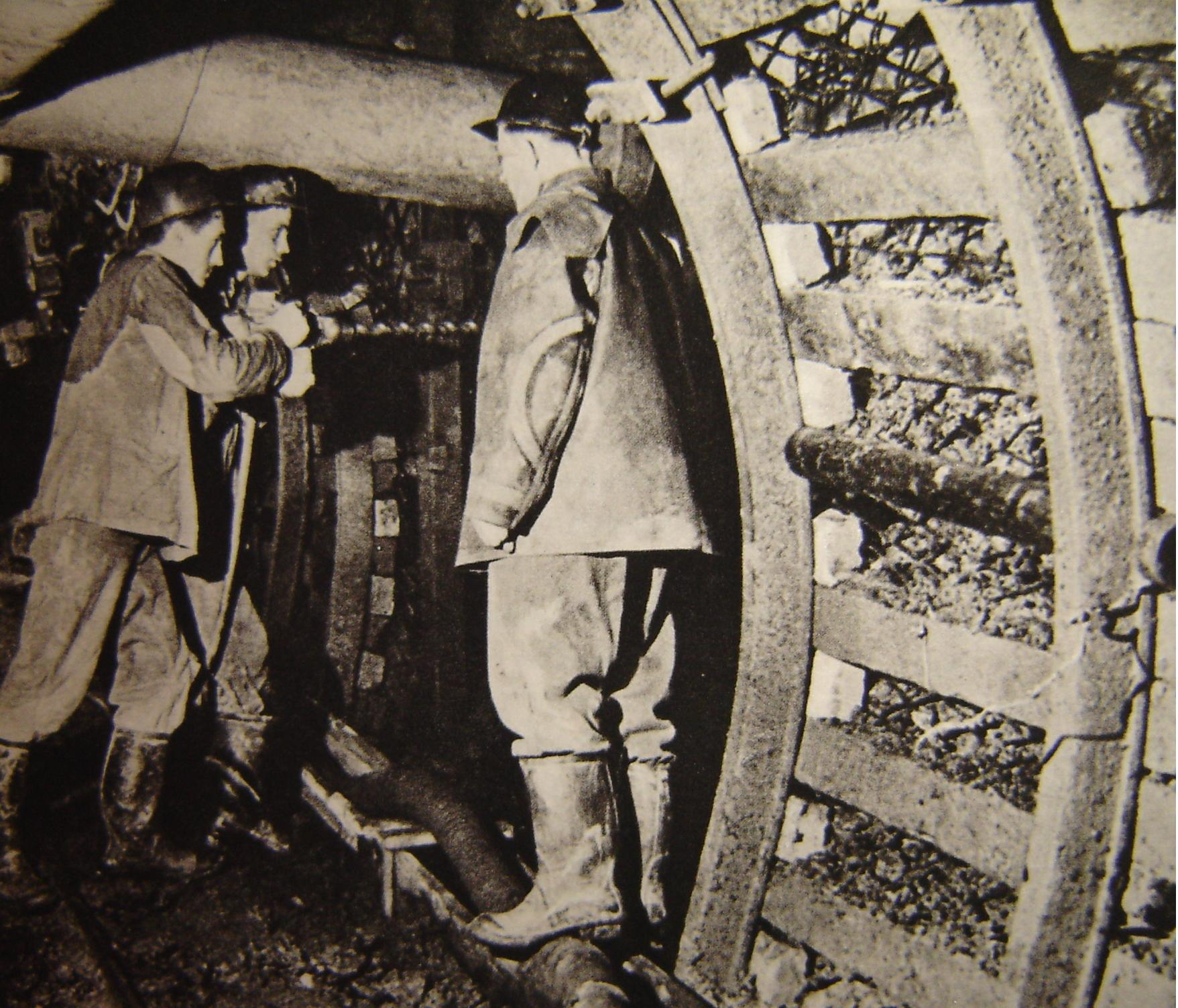 Students at a vocational school in Poszów, Poland, are shown around an experimental mine. From the 1964 book Twenty Years of the People's Republic of Poland, photographer not specified and no copyright notice in the book.